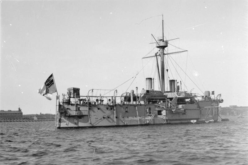 German ironclad SMS Oldenburg, launched 1884